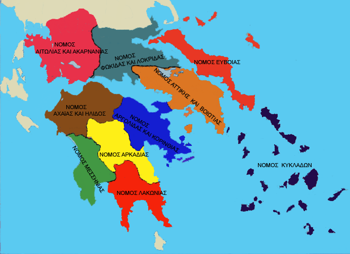 Map of subdivision of Greece in 1833